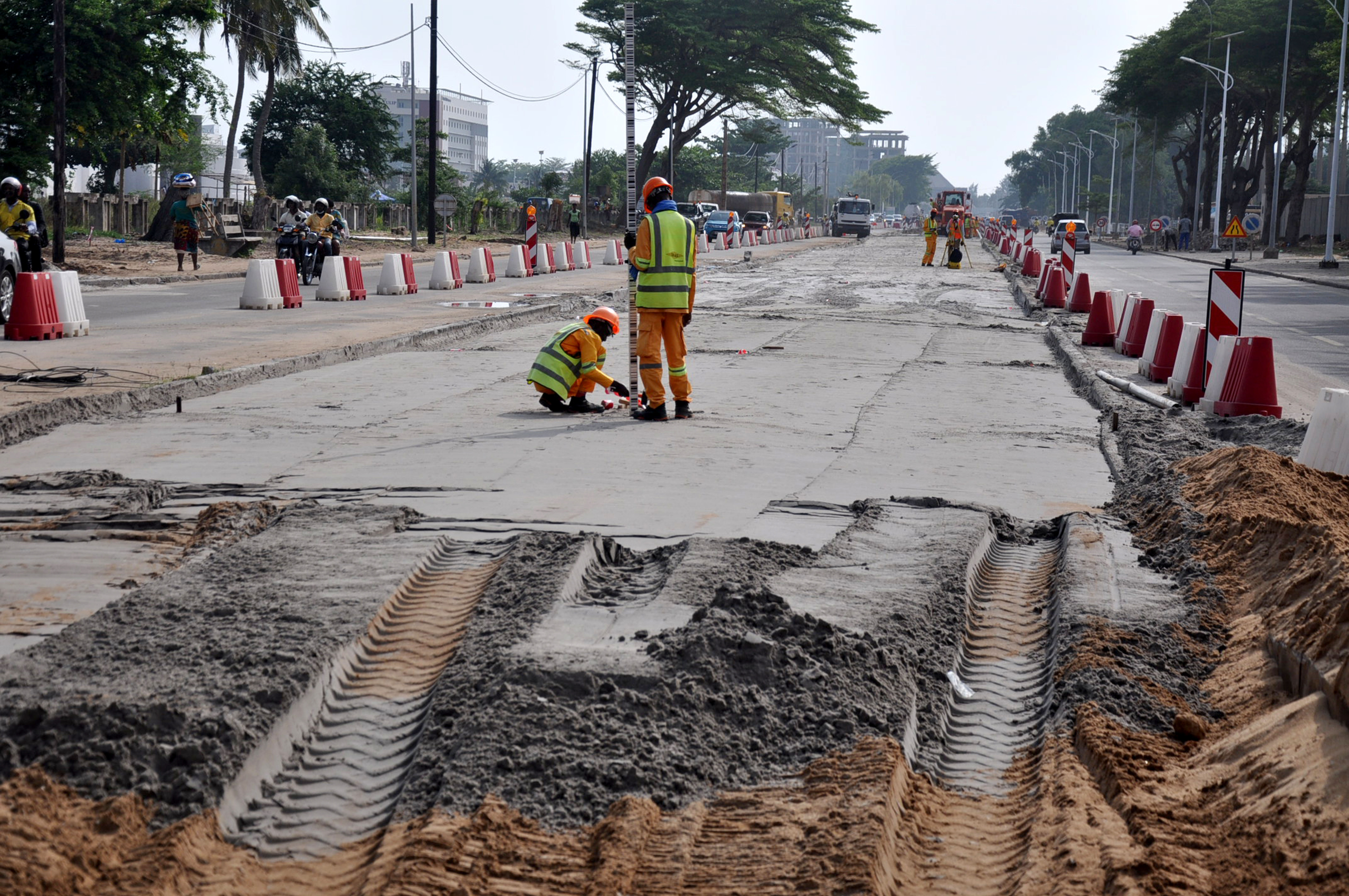 wide with eight vehicle passages, the roads of Benin challenge the major countries of the sub-region x This is an image with the theme "Africa on the Move or Transport" from: Benin